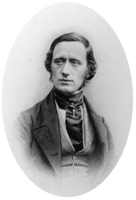 British composer William Bennett